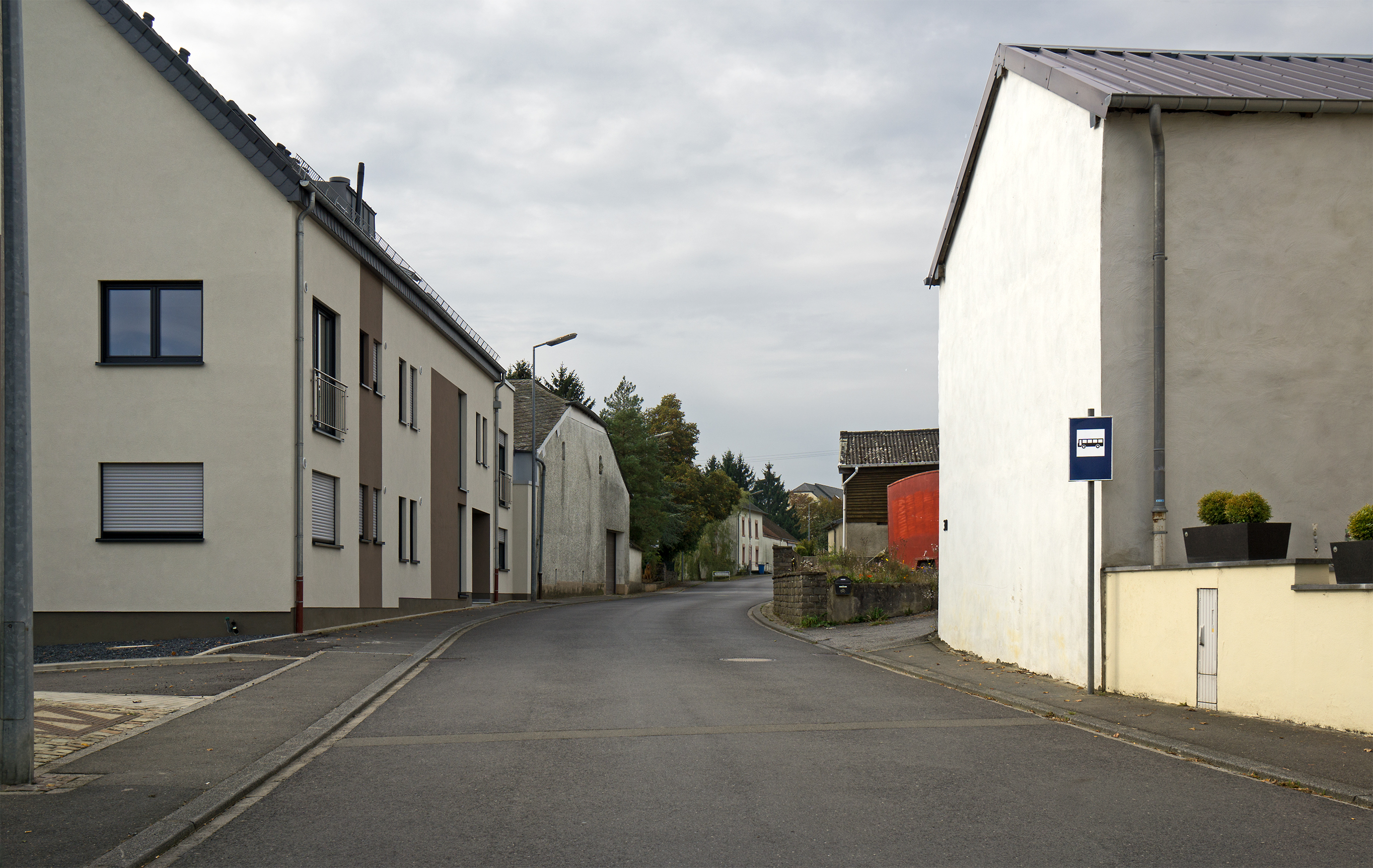 Main road of Eselborn